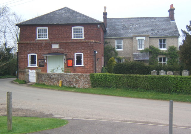 Wattisham Strict Baptist Chapel With adjoining cottage and quite a substantial graveyard alongside.